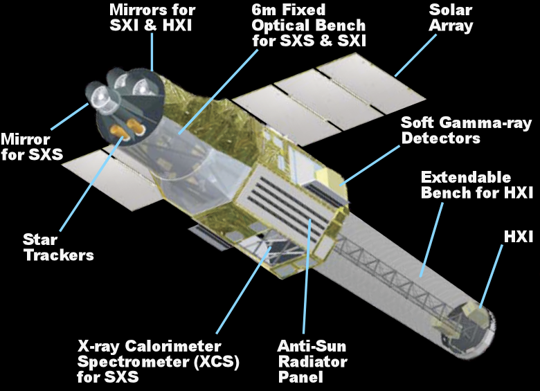 English-labeled schematic for the X-ray astronomy spacecraft Astro-H (Hitomi).